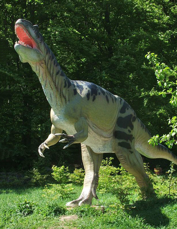 Jurassic park for kids at Museum of Earth in Kletno (Lower Silesia, Poland)